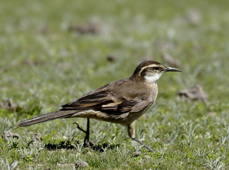 Cipo Cinclodes; Santana do Riacho, Minas Gerais, Brazil